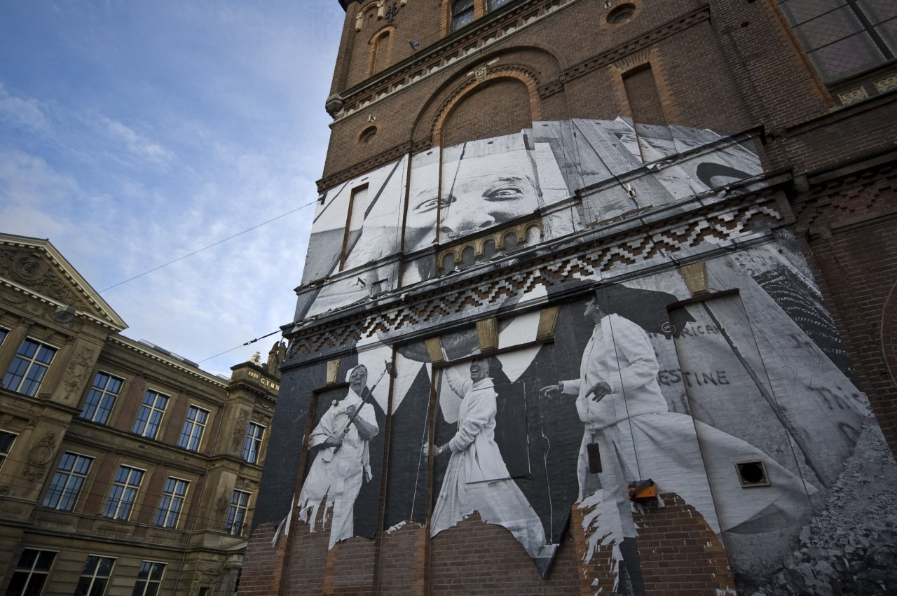 Photo of JR's Face2Face project on the side of the Paradiso, Amsterdam.